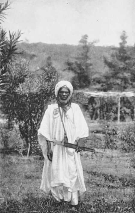 A Hausa man